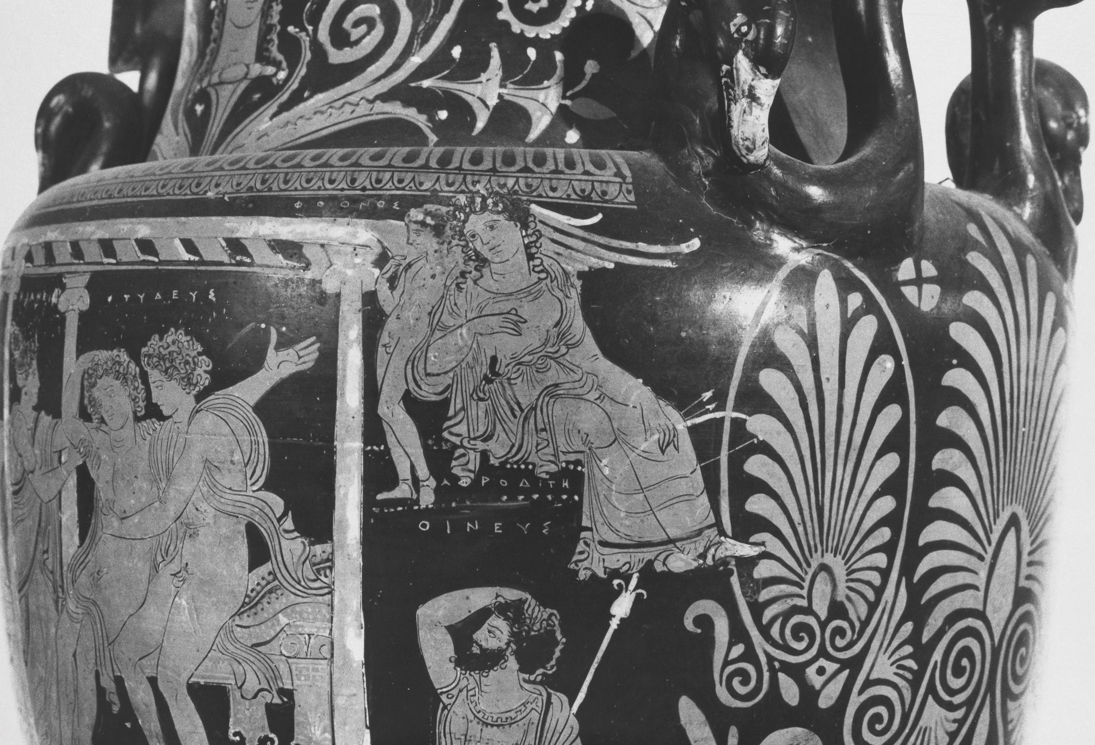 Meleager collapses in a room in front of a Kline. He is supported by Deianeira and Tydeus. From the left, a woman approaches. On the right above the room, Aphrodite sits in mourning, Phthonos leaning against her. Underneath stands Oineus, scepter in left hand. Below the room, Theseus and Peleus are in mourning.